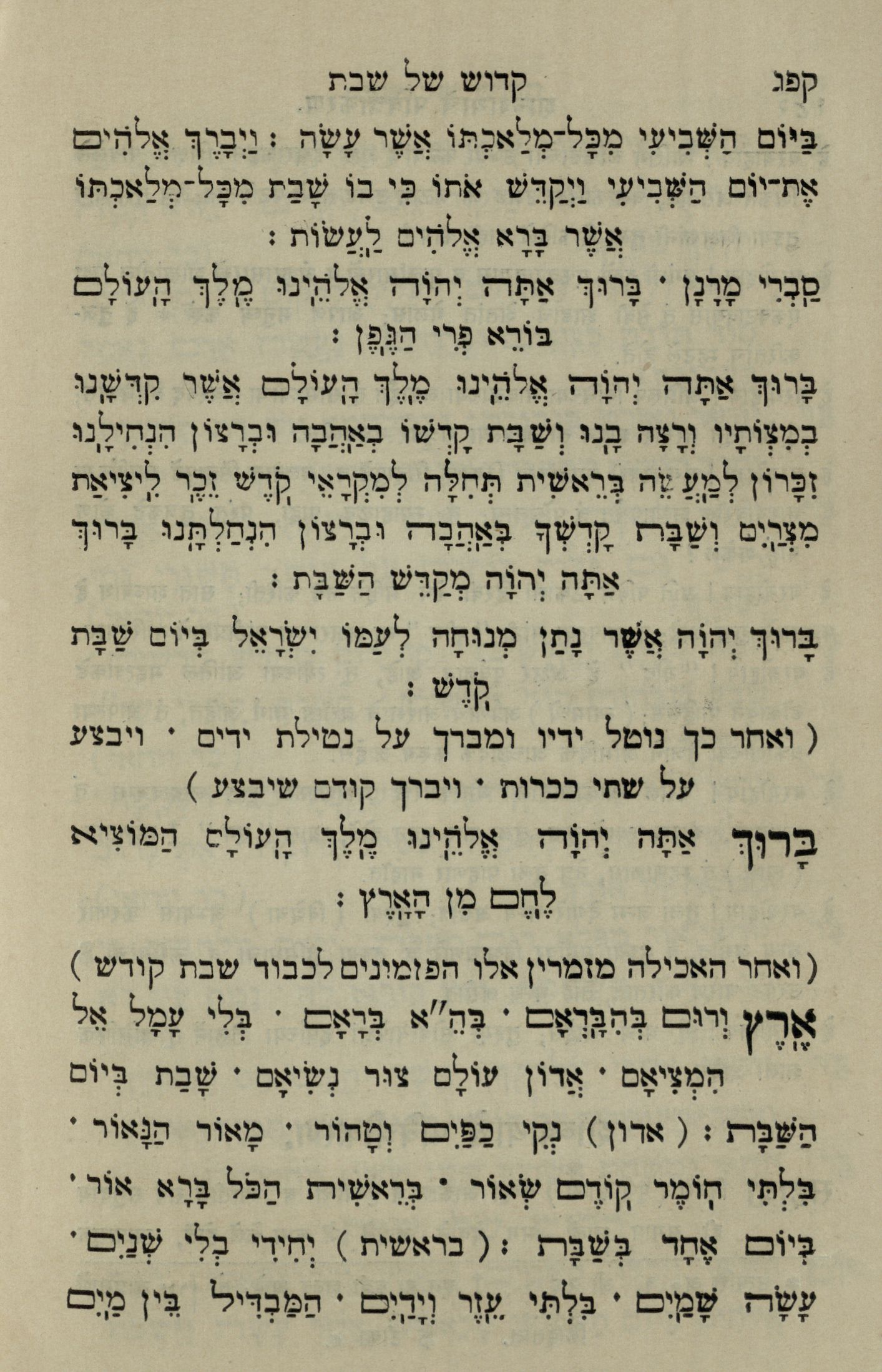 Jewish Prayer Book (Siddur) in Hebrew and Marathi , translated from Hebrew to Marathi in 1889 by Rajpurkar, Joseph Ezekiel